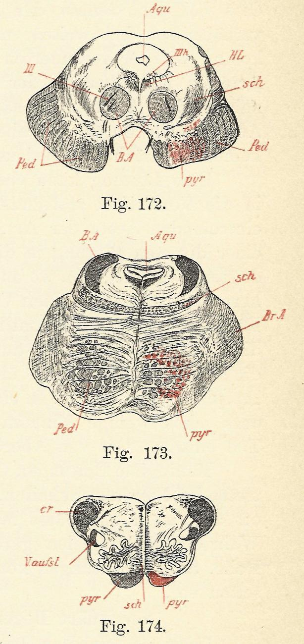 The course of degenerated pyramidal tract fibres revealed by Marchi degeneration (marked red points in the transverse sections). Reproduced from Monakow (p. 722, figs. 172–174)]. Fig. 172 "Transverse section at the midbrain level shows the degenerated fibres in the middle segment of the peduncle." (Wiesendanger, 2006) Fig. 173 "At the pontine level, descending degenerating fibres in a crescent-shaped order between islands of pontine neurons (neurons not visible with the Marchi staining)." (Wiesendanger, 2006) Fig. 174 "Pyramid totally filled with degenerated fibres directed to the spinal cord." (Wiesendanger, 2006)